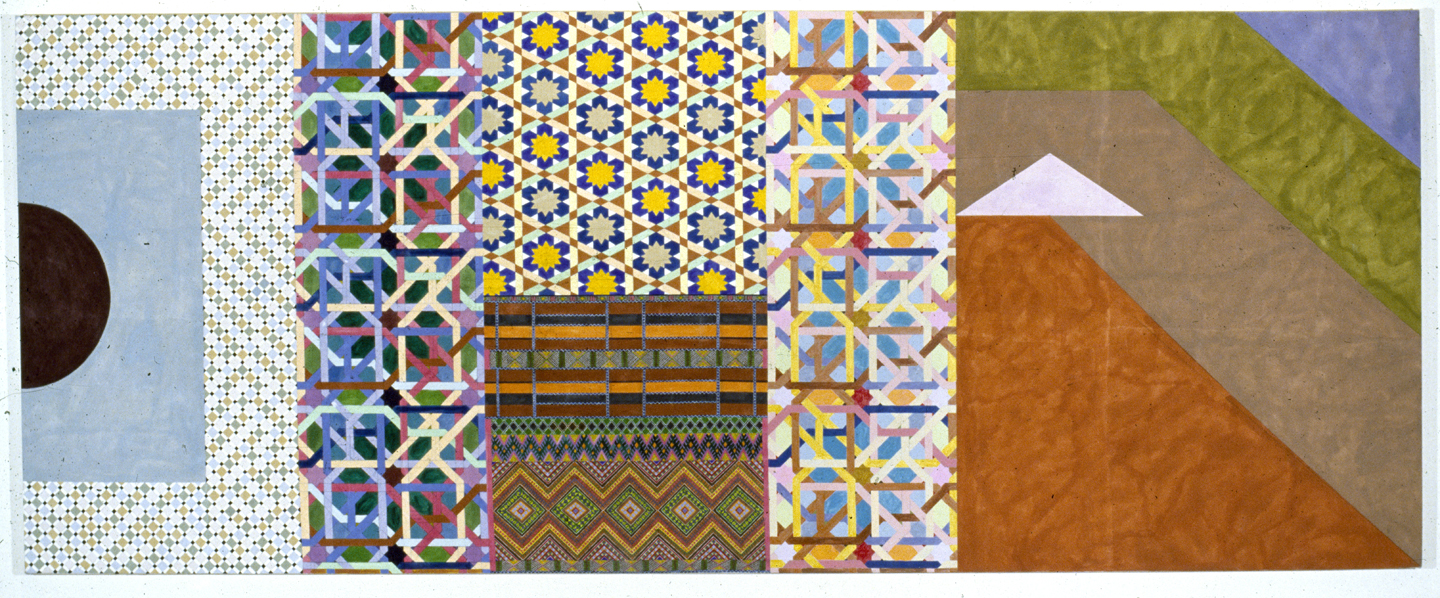 Date, 1977. Medium, acrylic/canvas. Size, 72 x 180” This is an acrylic painting on canvas by artist Joyce Kozloff. The imagery is appropriated from Islamic patterns and Berber rugs. It evokes the feeling of walking in a North African city, turning a bed, seeing a tiled facade or an carpeted entranceway.